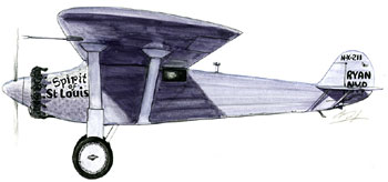 Illustration of Spirit of St. via Wikipedia, where it was uploaded 17:16, 31 January 2004 byw:User:RadicalBender.